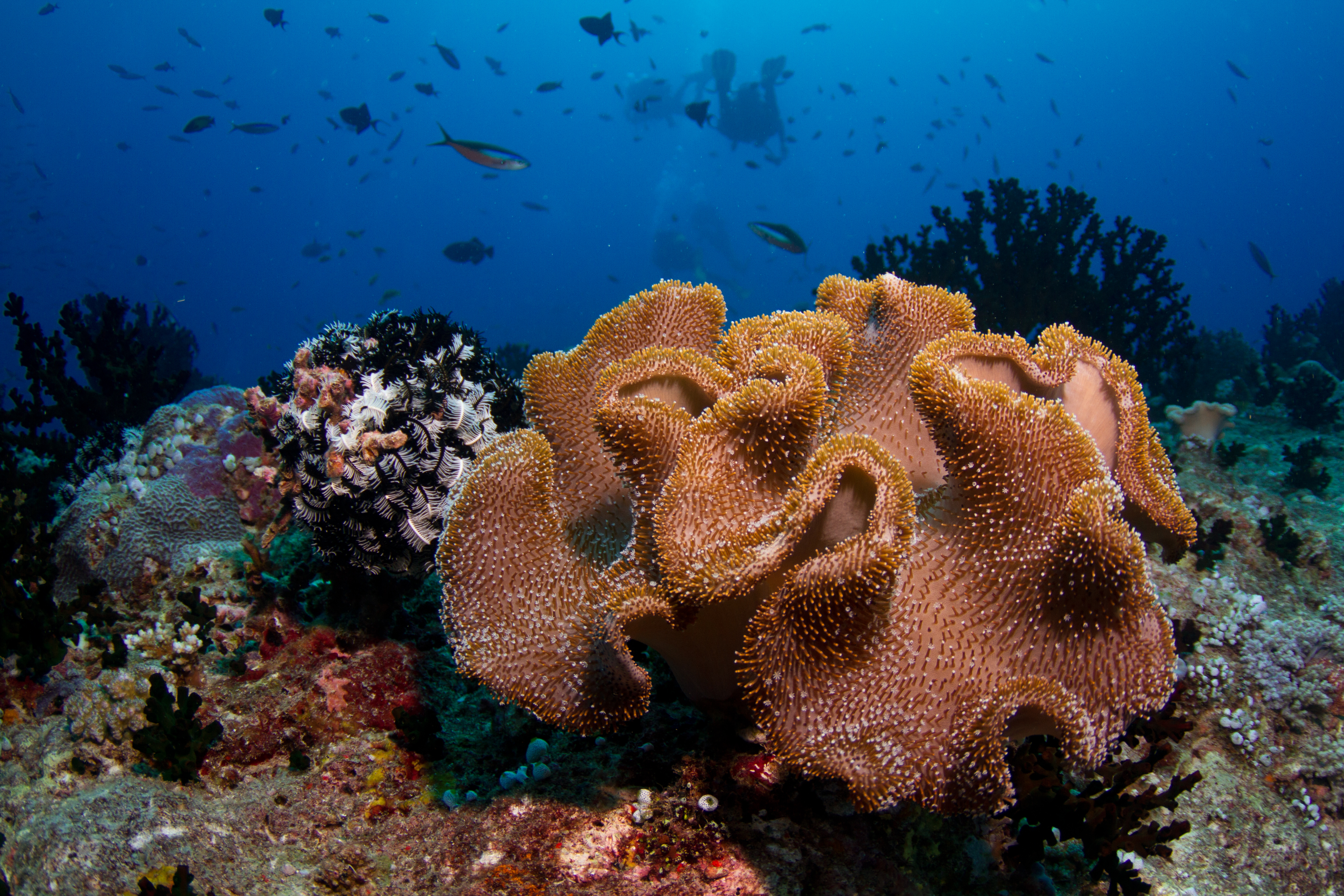 Maldives soft coral (probably Sarcophyton sp.).